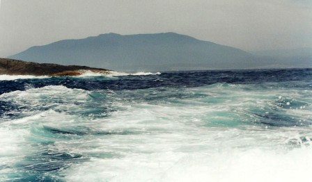 Gulaga Mountain from Kato 3, near Montague Island